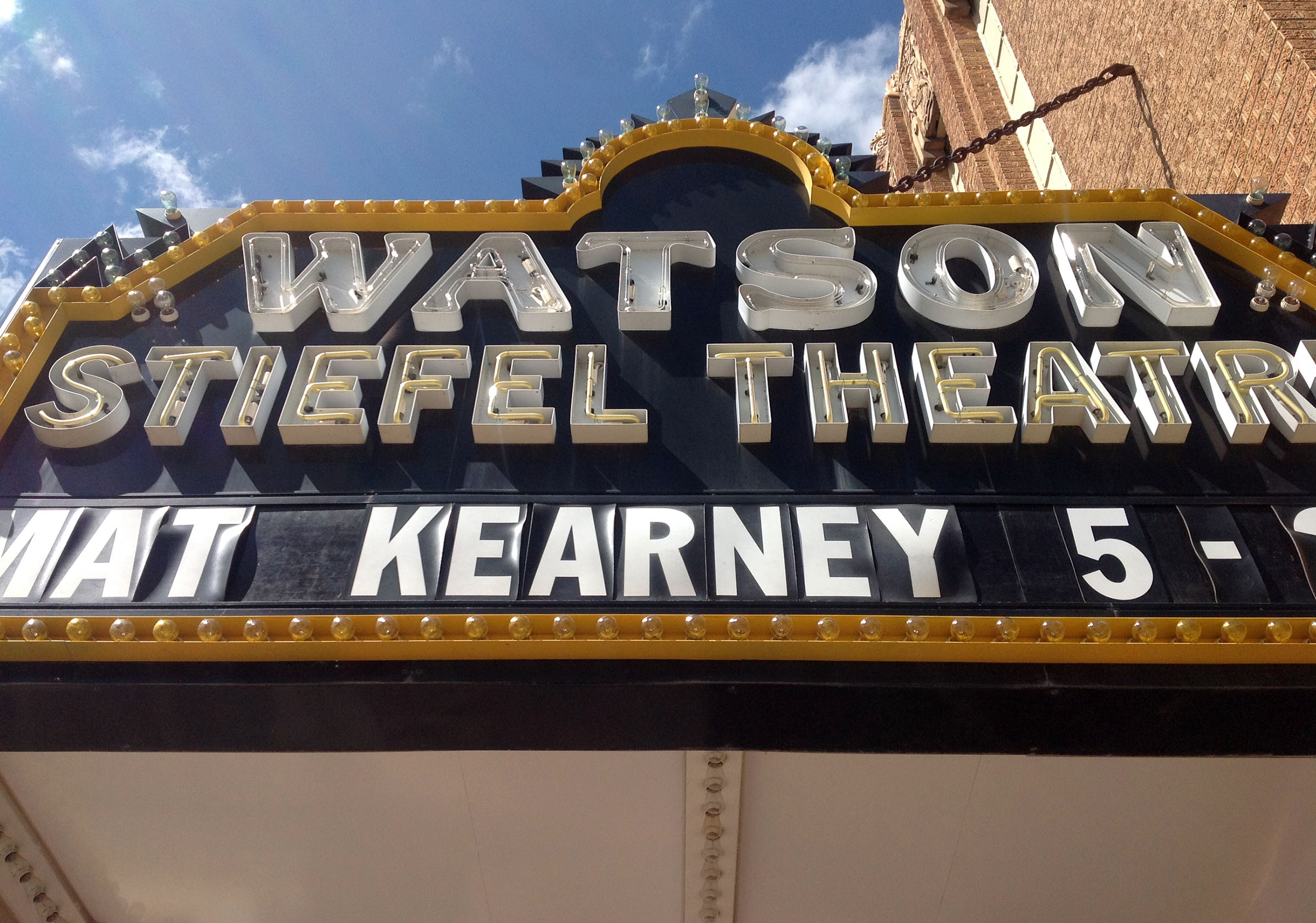 The Stiefel Theatre for the Performing Arts marquee, Salina, Kansas